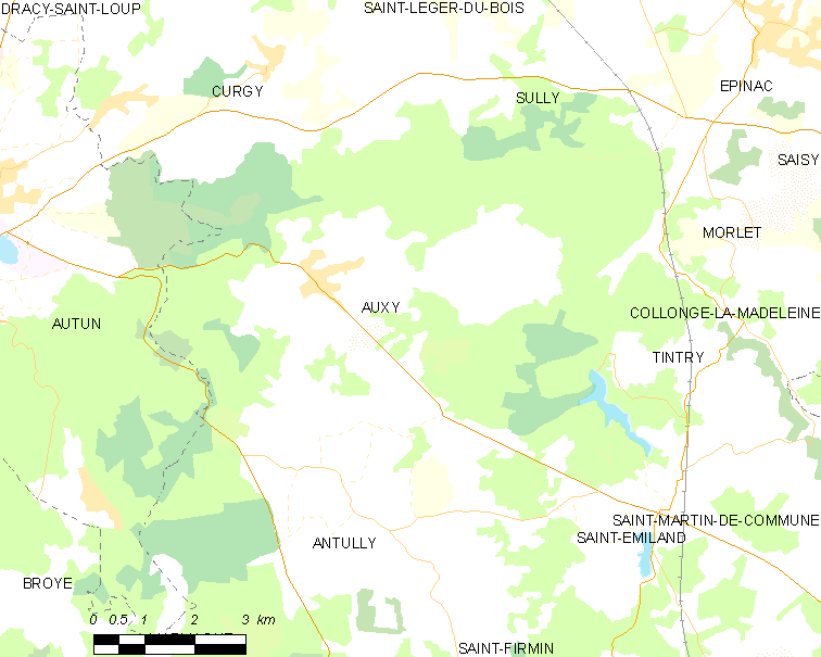 Map of French municipality